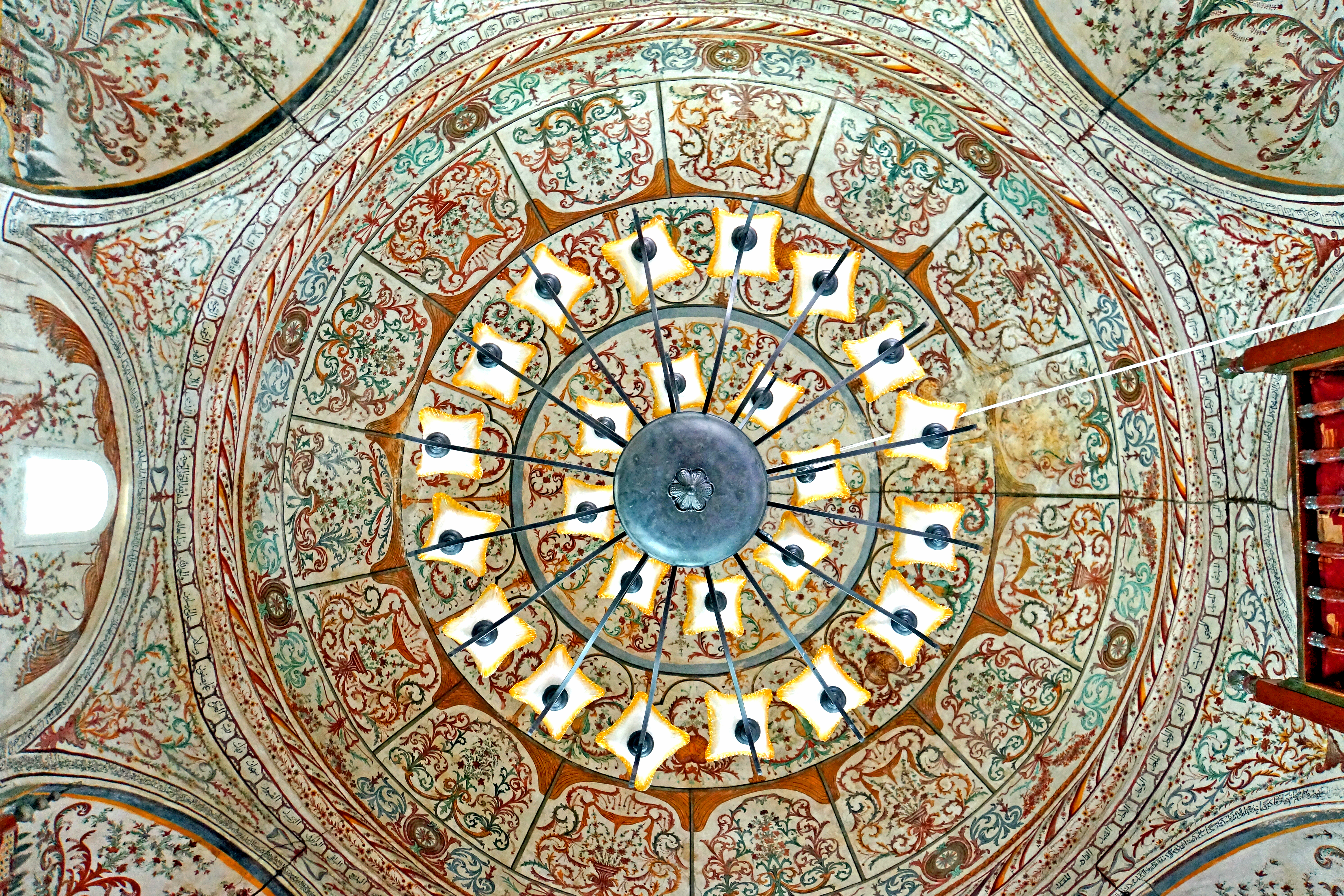 Ethem Bey mosque